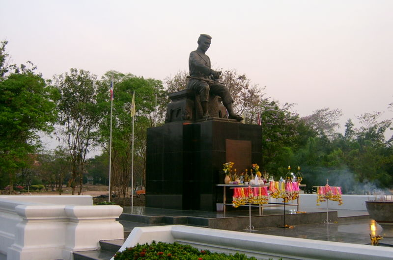 King Naresuan Statue in Naresuan University